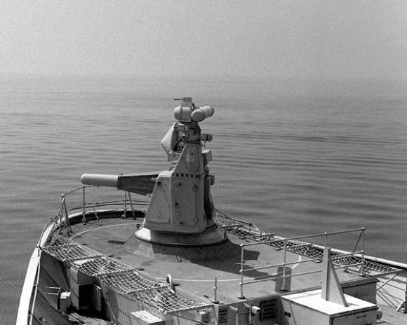 Goalkeeper CIWS This picture is also on which claims the source is the US Navy. Afbeelding:Goalkeeper-en.jpg